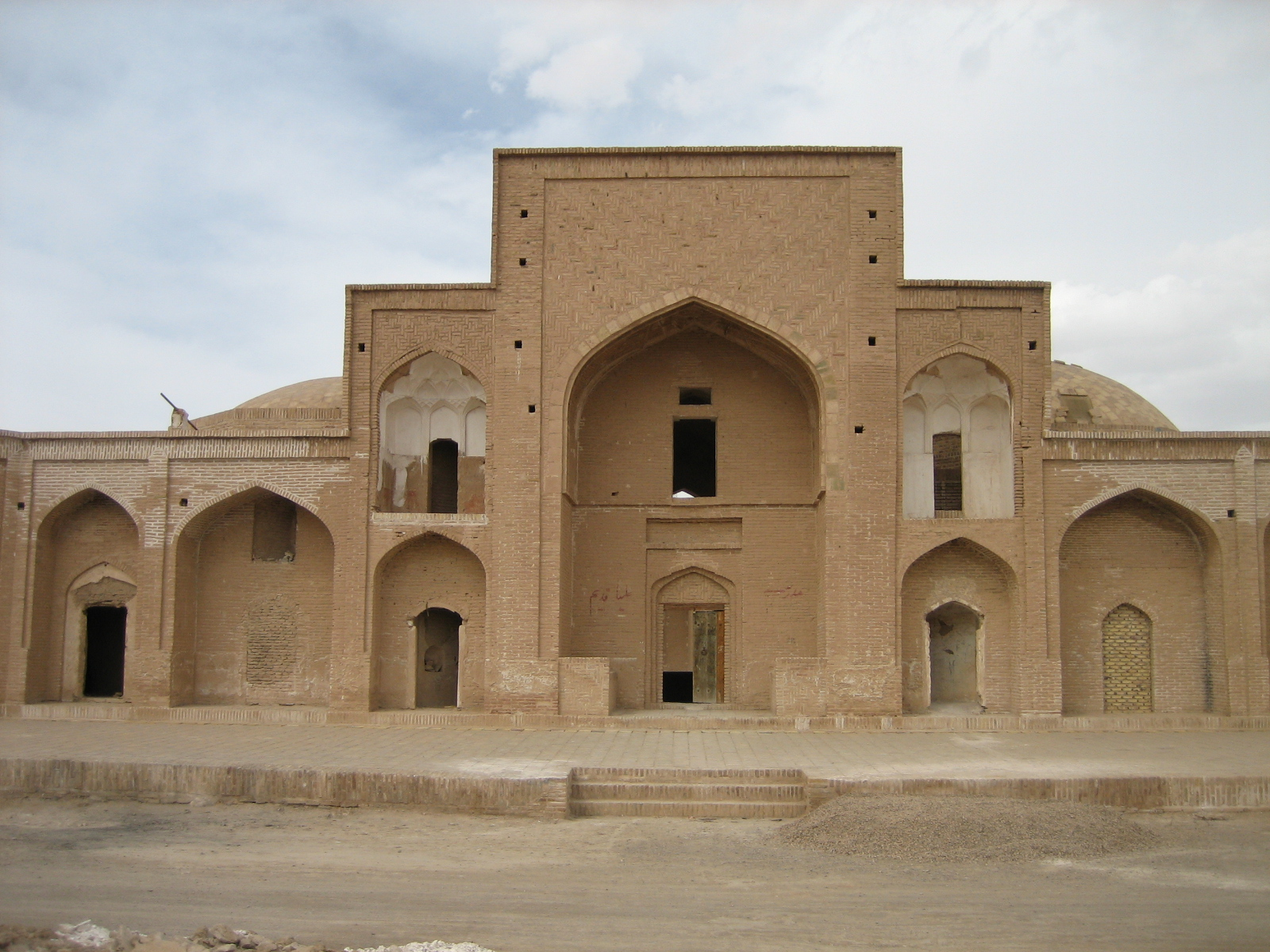 Outer View of the Religious School, Ferdos, Iran.